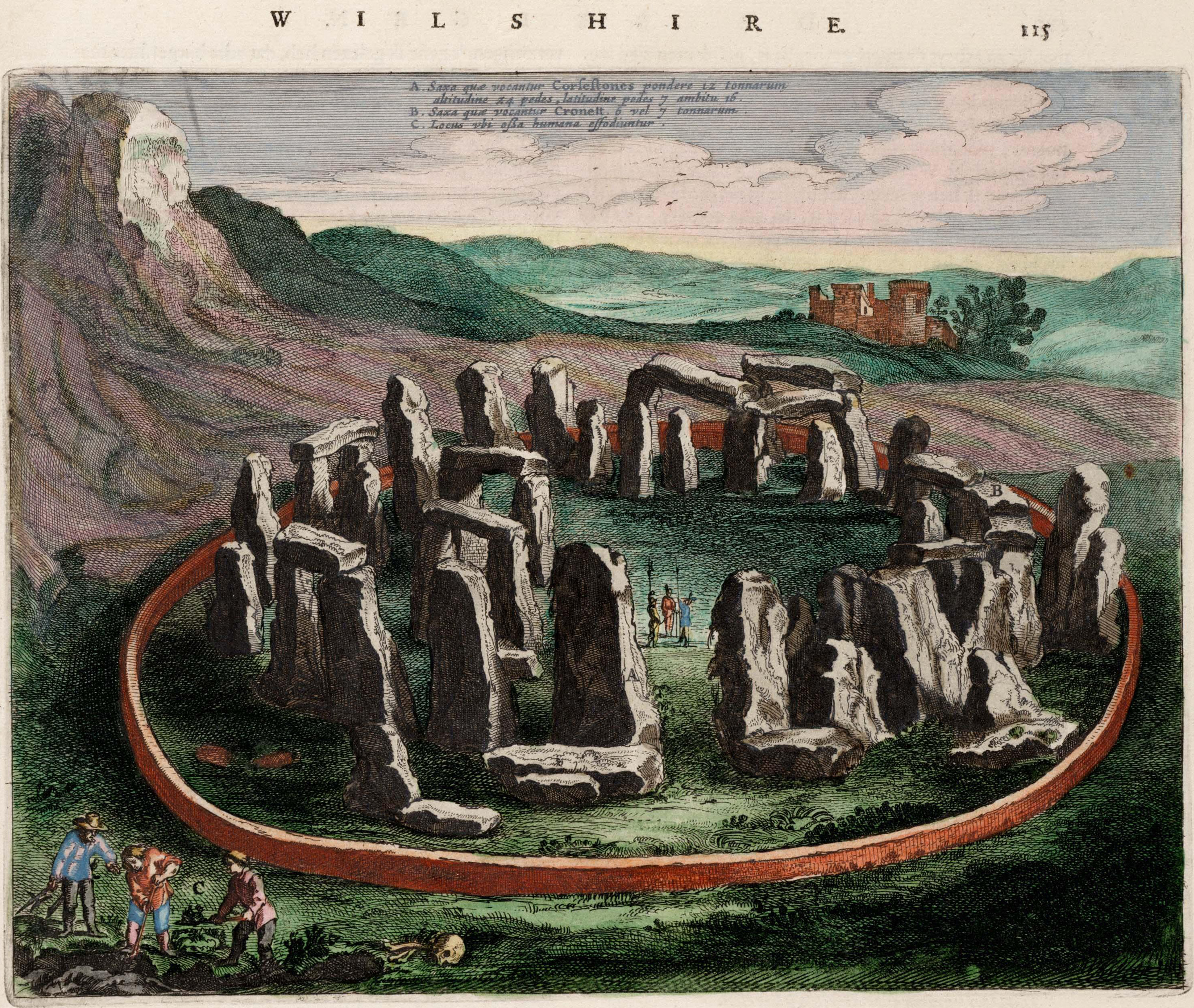 Stonehenge